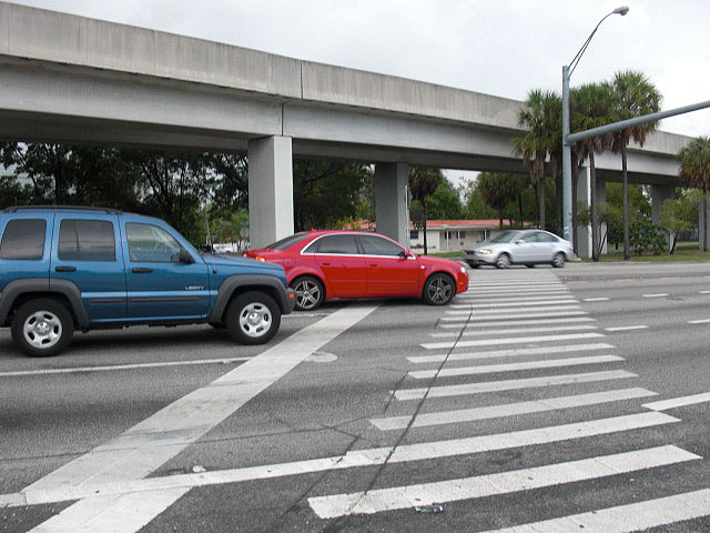 View of Bird Road at South Dixie Highway in Miami